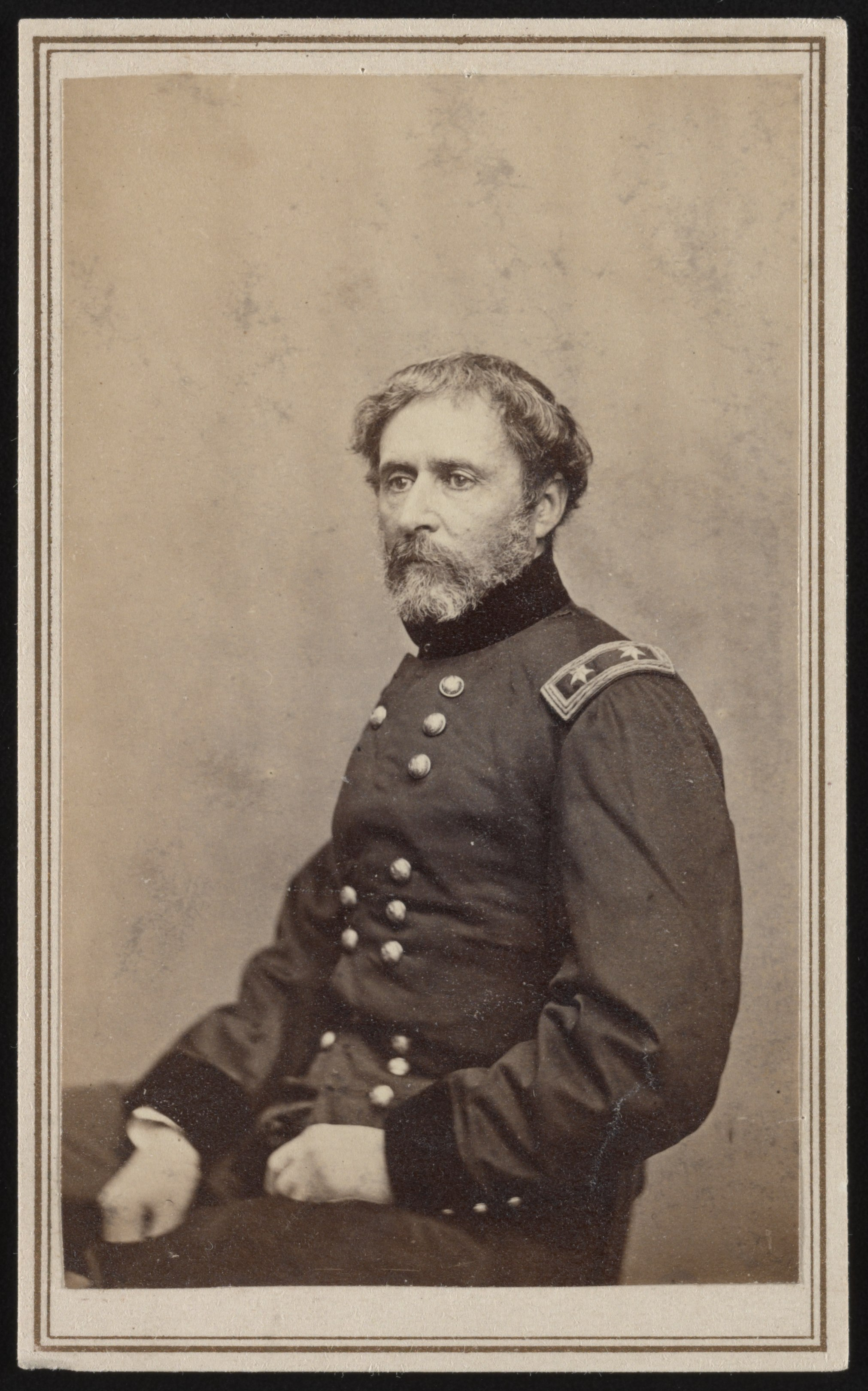 Title: Major General John Charles Fremont of General Staff Regular Army Infantry Regiment, in uniform] / Rockwood, photographer, 839 Broadway, N.Y Abstract/medium: 1 photograph : albumen print on card mount ; mount 10 x 6 cm (carte de visite format)